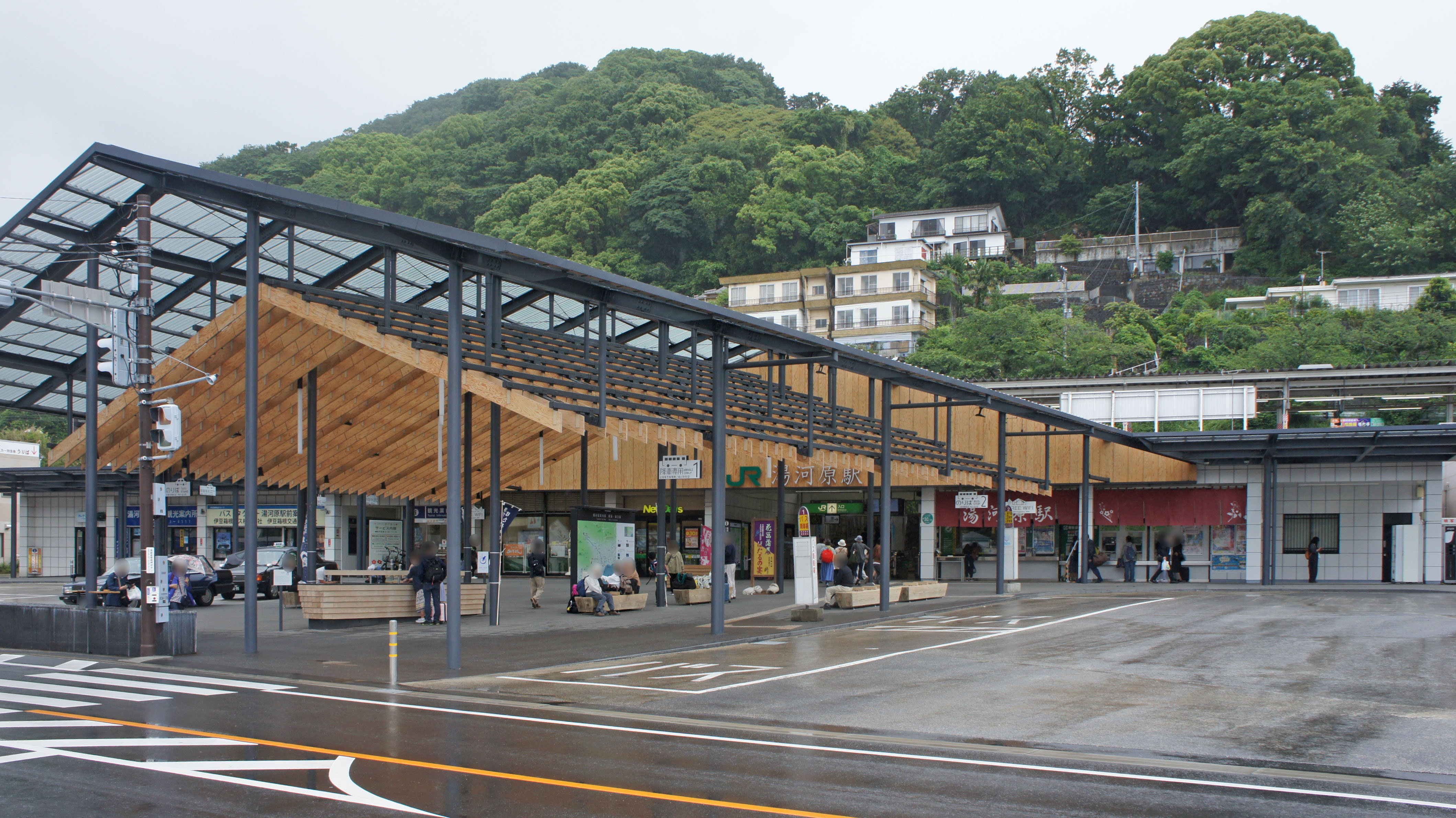 Station building of JR Tokaido-Main-Line Yugawara Station